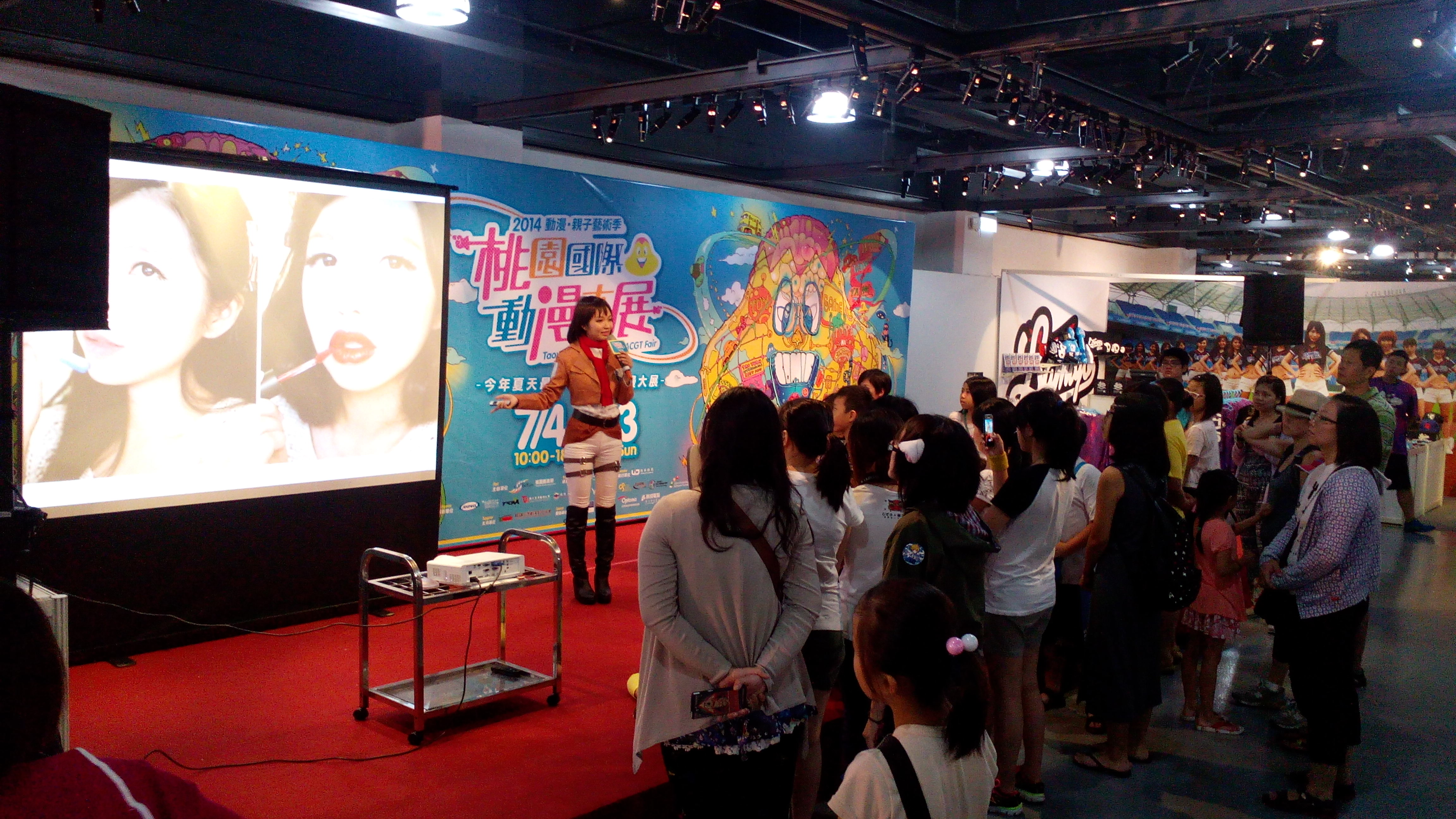 2014 Taoyuan International ACGT Fair - Cosplay Workshop.